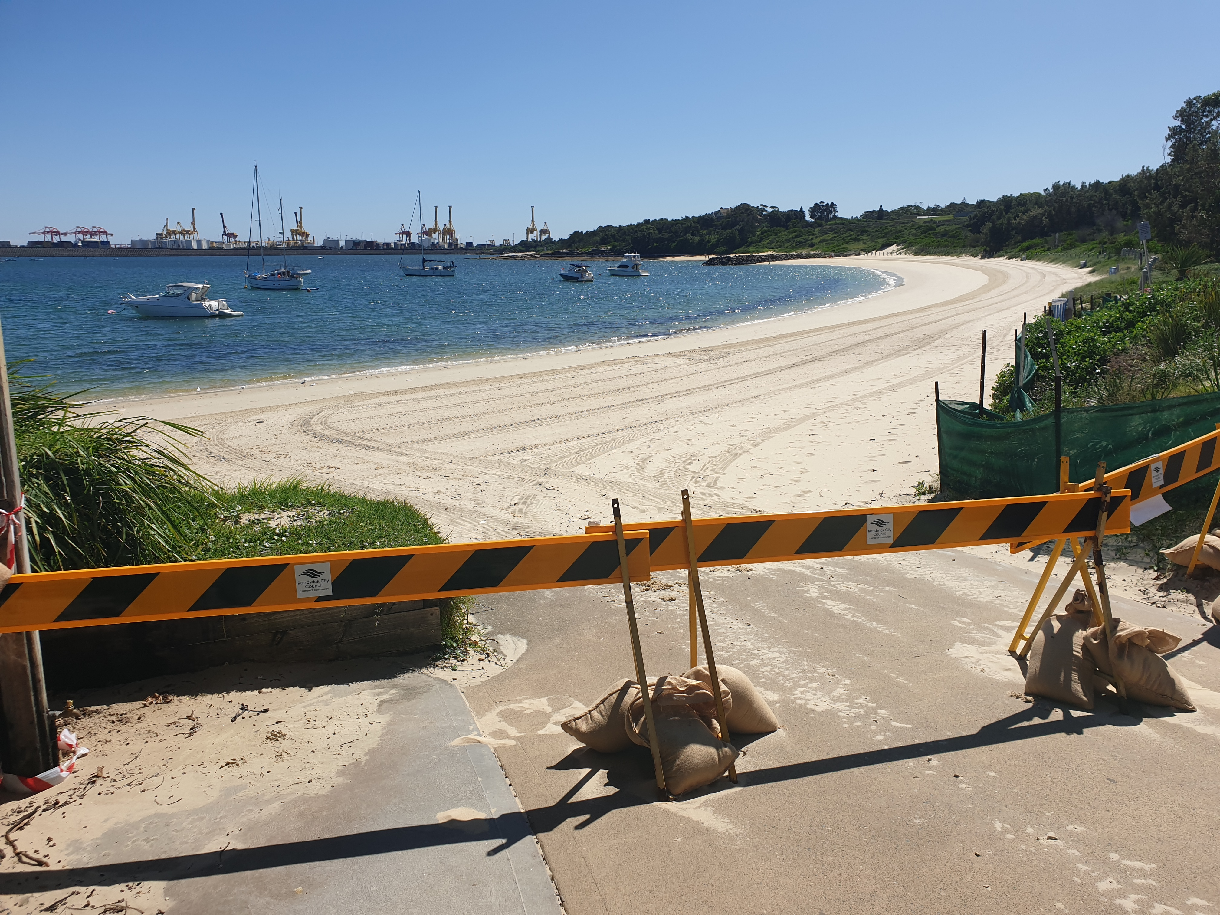 Barricades installed by Randwick City Council to prevent access to a beach at La Perouse, New South Wales, during the COVID-19 pandemic, April 2020.